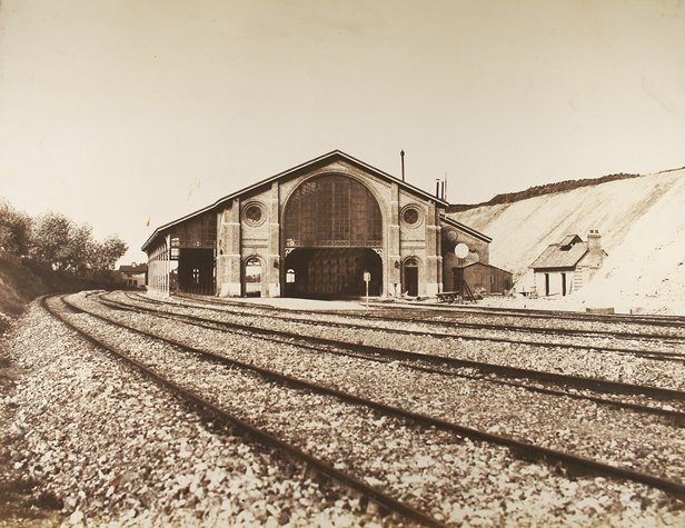 Gare de Longueau (Longueau Station). Salt print from a paper negative. 13 1/4 in. x 17 1/4 in. (33.66 cm x 43.82 cm). Collection of the San Francisco Museum of Modern Art, fractional gift of Paul Sack, and collection of the Sack Photographic Trust. 94.391.